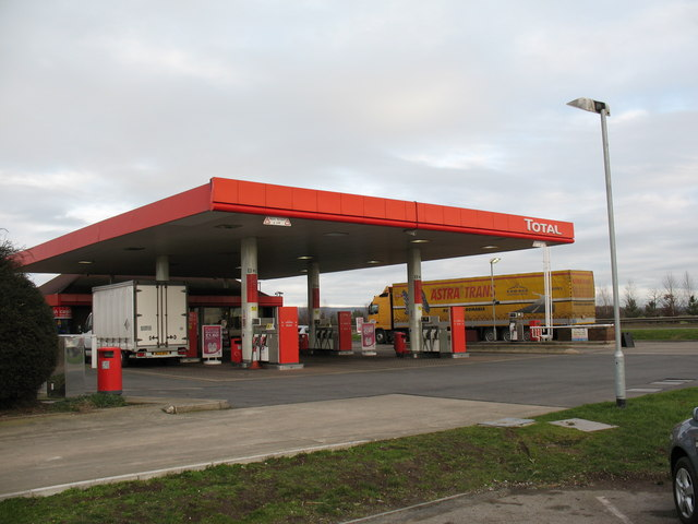 Filling Station A168 near Thirsk On the northbound side of the A168 dual carriageway and next to a 'Little Chef' cafe.